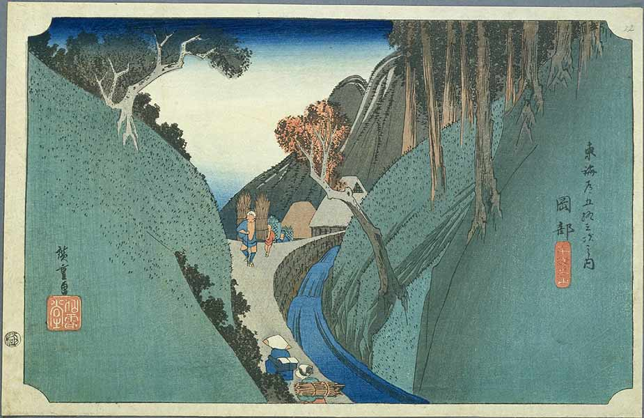 Okabe on the Tokaido, ukiyo-e prints by Hiroshige